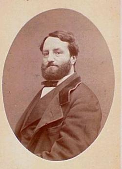 French novelist Alfred Assolant (or Assollant) (1827-1886)